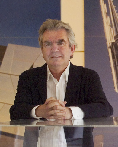 Photograph of British architect and planner Sir Terry Farrell in his studio